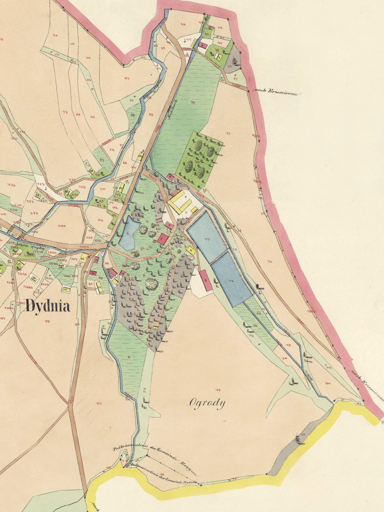 Dydnia manor house on a map from 1851